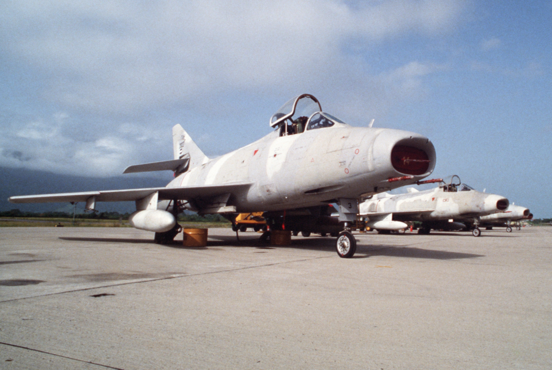 A Honduran air force Dassault Super Mystere B.2 aircraft at Golosón Airport, La Ceiba, Honduras, in 1988.